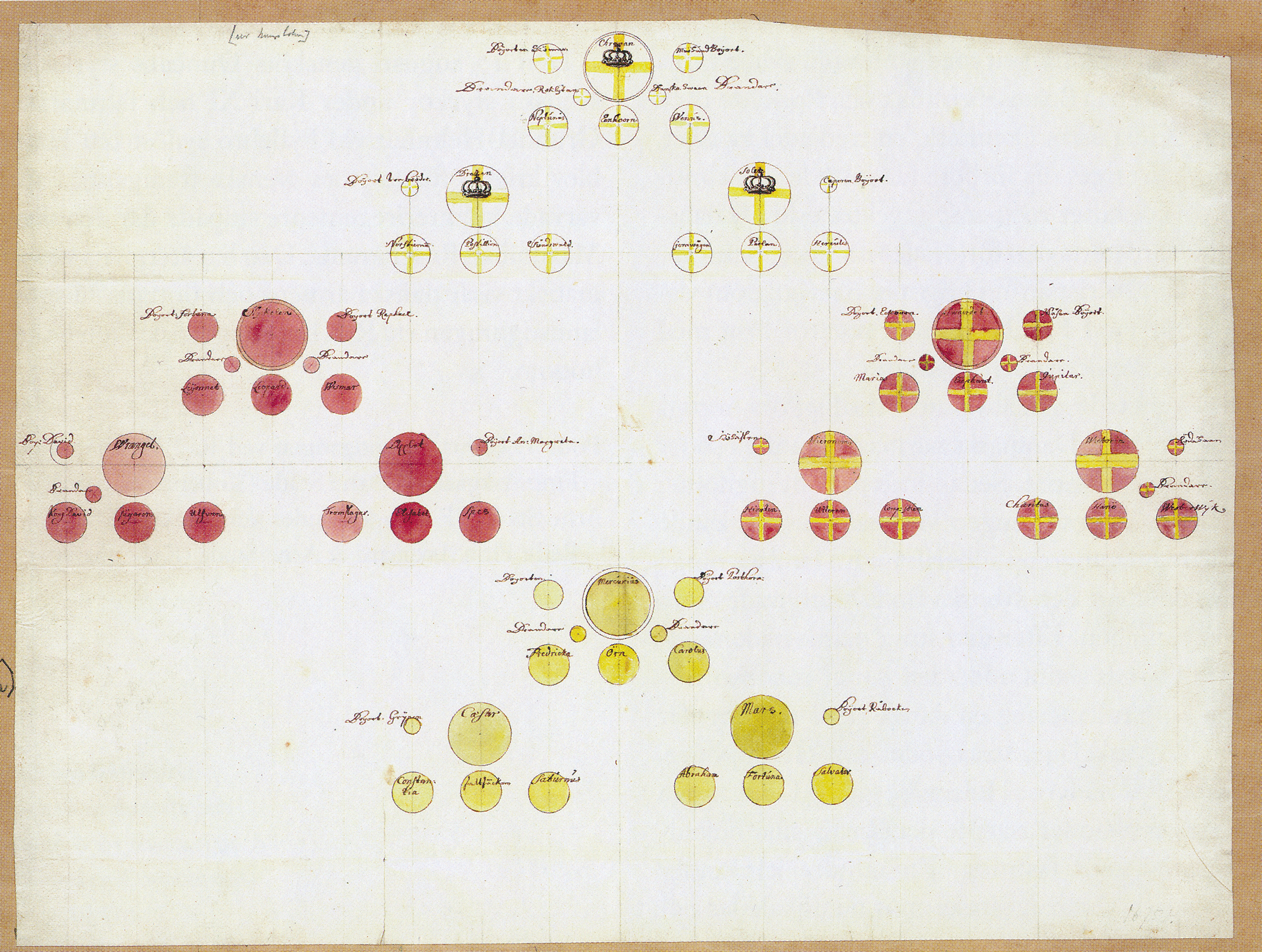 Illustration of the sailing order of the Swedish navy in the autumn of 1675. Från the Swedish Military Archives, Kungsboken, 12:1a.